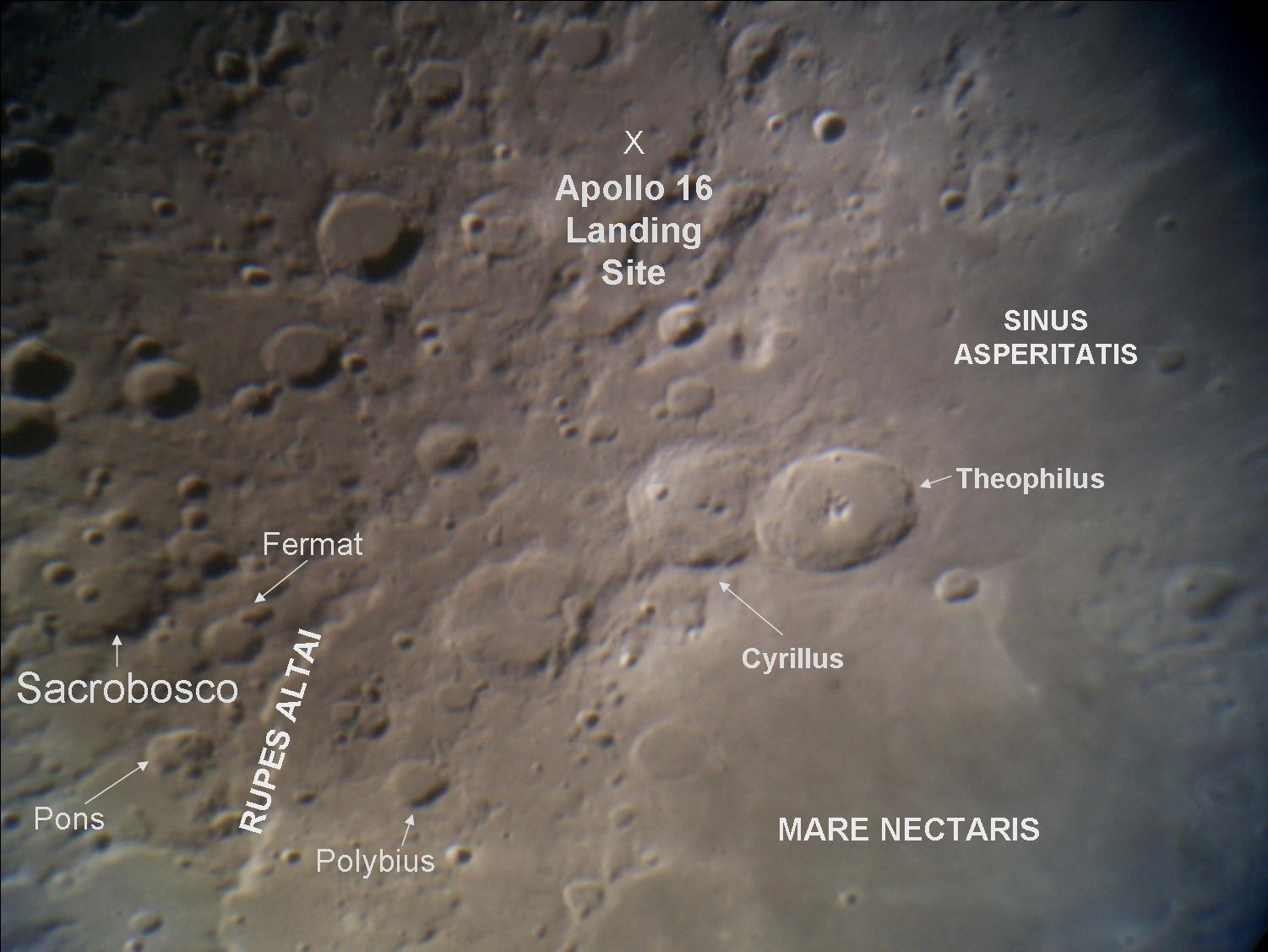 Crater Sacrobosco photographed by Eric S. Kounce of the West Texas Astronomers ( on October 28, 2006 utilizing the 36-inch Telescope at McDonald Observatory near Ft. Davis, Texas.